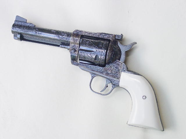 American Pistolsmith's Guild annual guild gun built on Ruger Blackhawk.